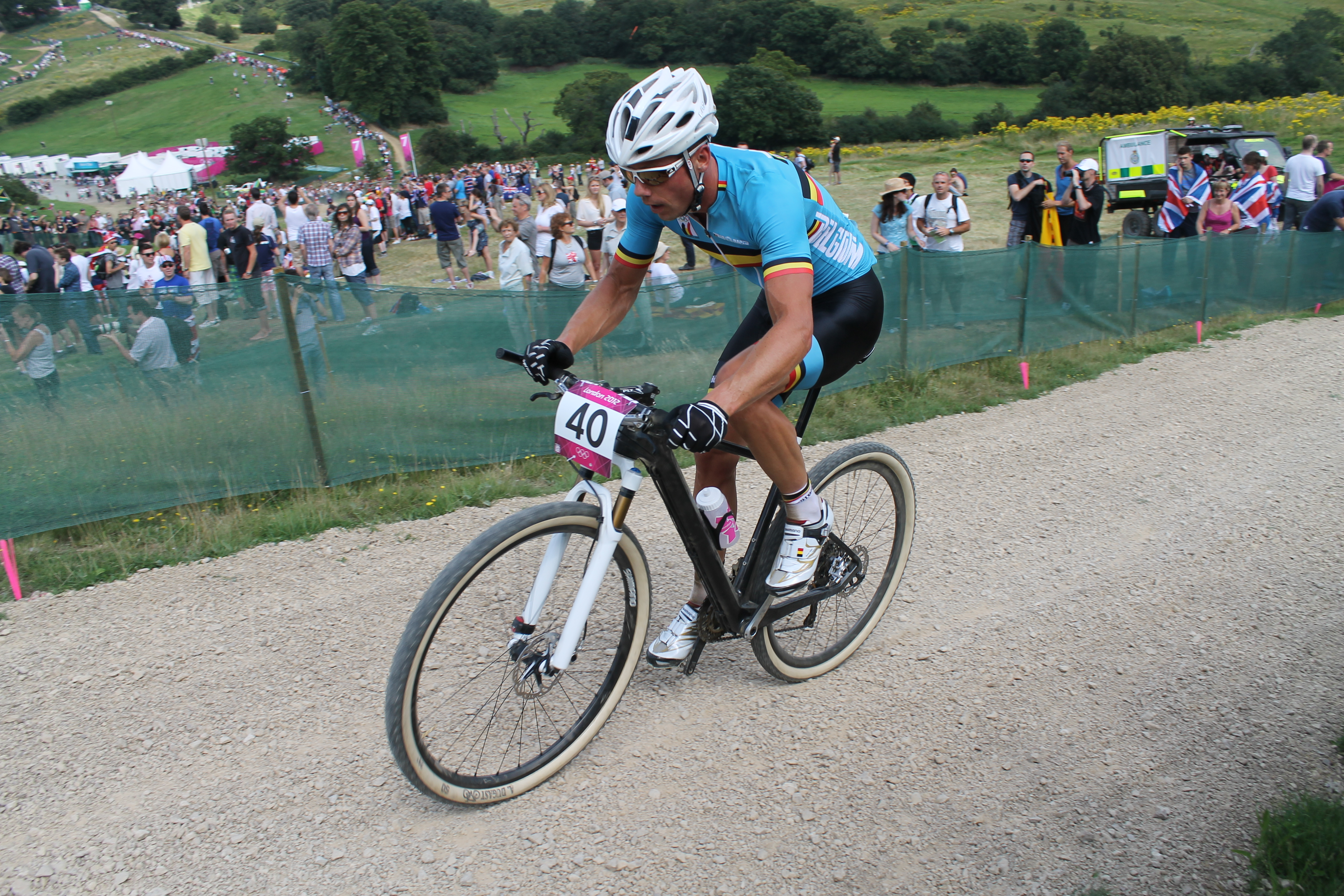 Cycling at the 2012 Summer Olympics – Men's cross-country Sven Nys (40) (BEL) IMG_4019